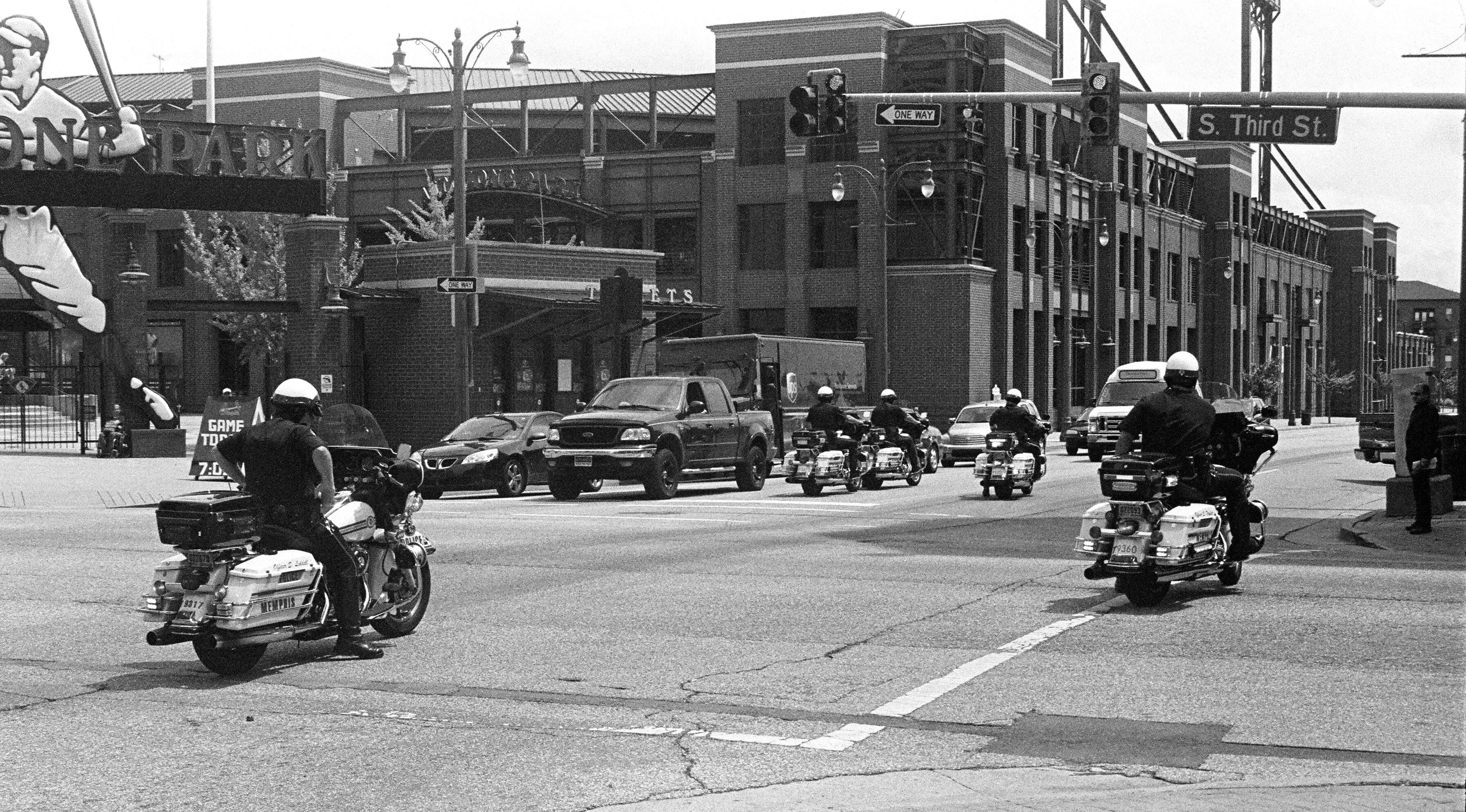 (Taken with my Minolta SRT101 35mm using ilford HP5 400asa)